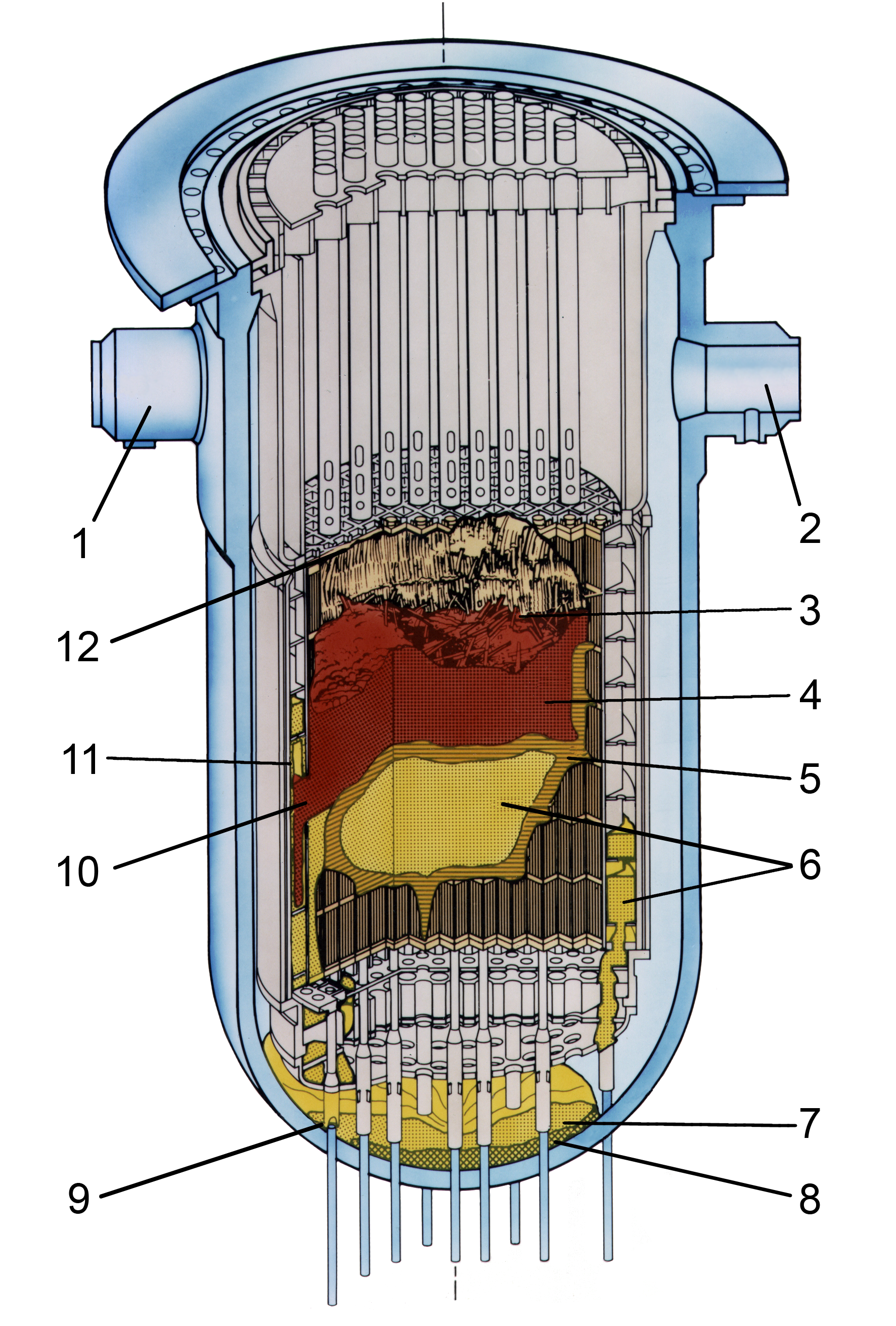 NRC Image of TMI-2 Core End Stable State.